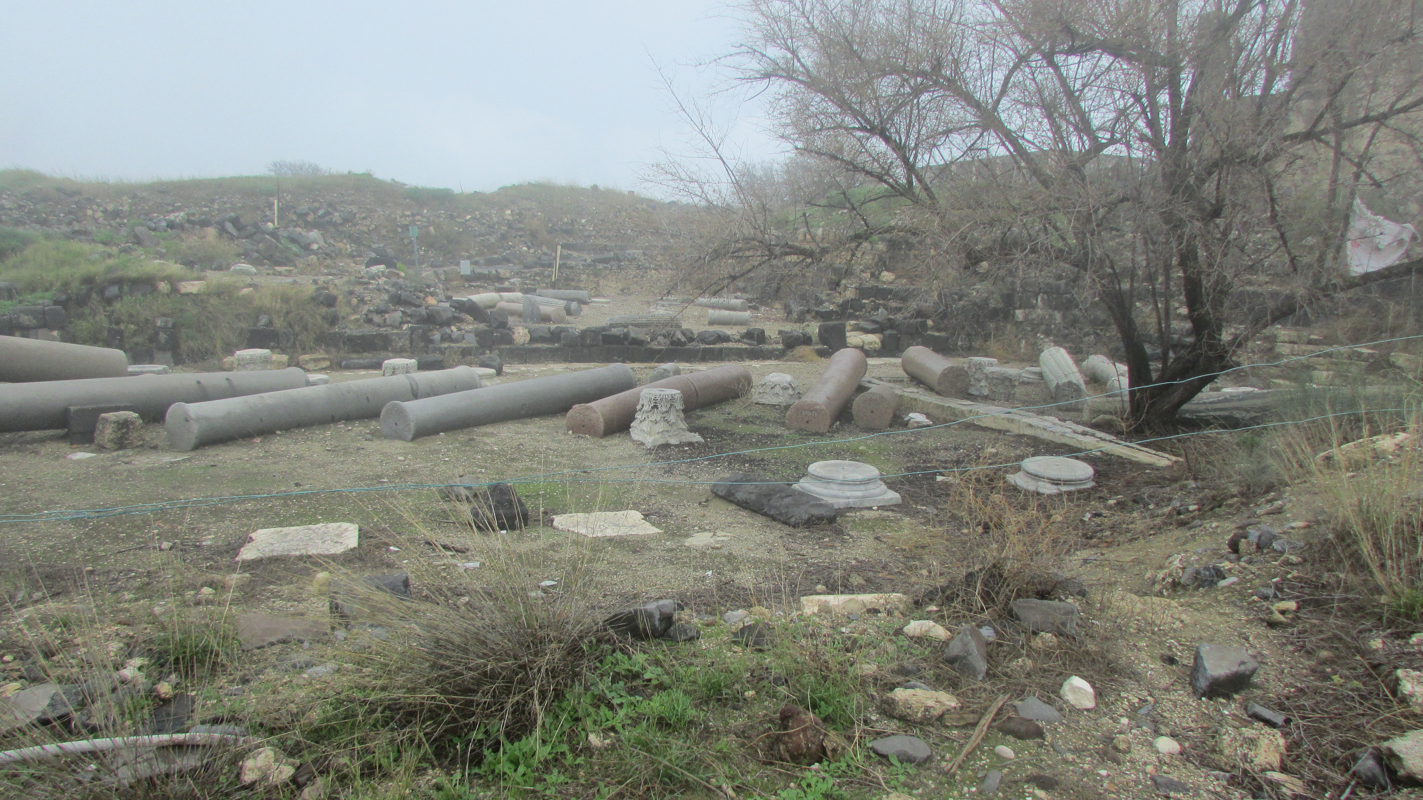 Hippos cathedral